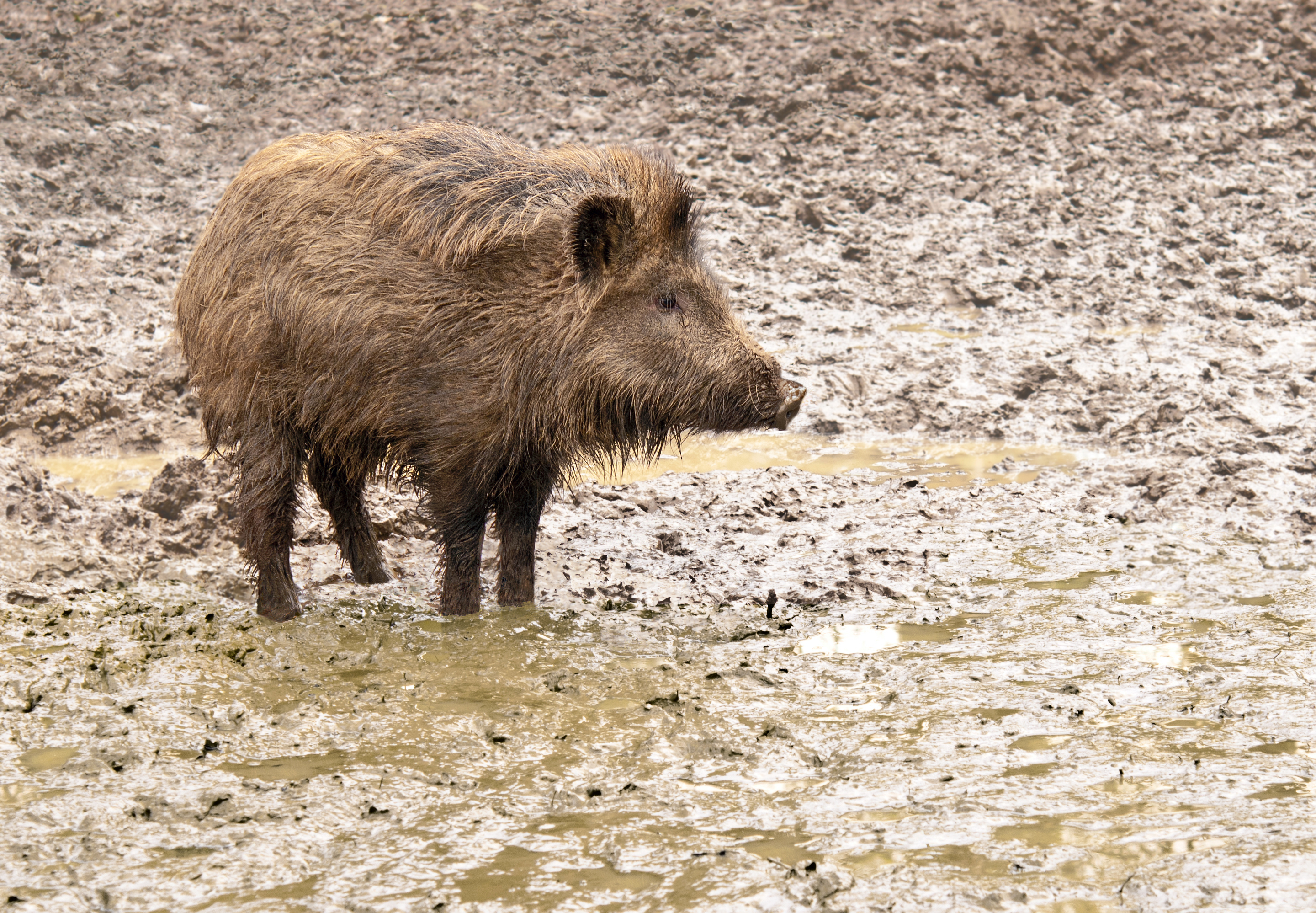 A young wild boar in his environment in the Wisentgehege Springe game park near Springe, Hanover, Germany